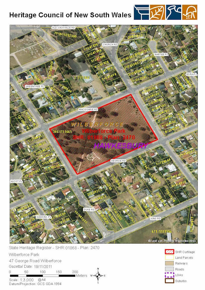 Wilberforce Park: SHR Plan 2470